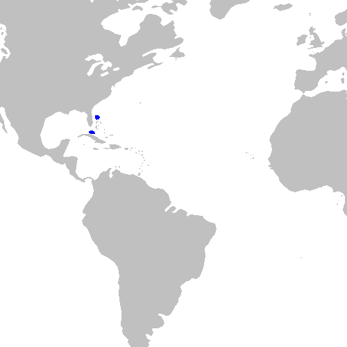 Distribution map for Pristiophorus schroederi